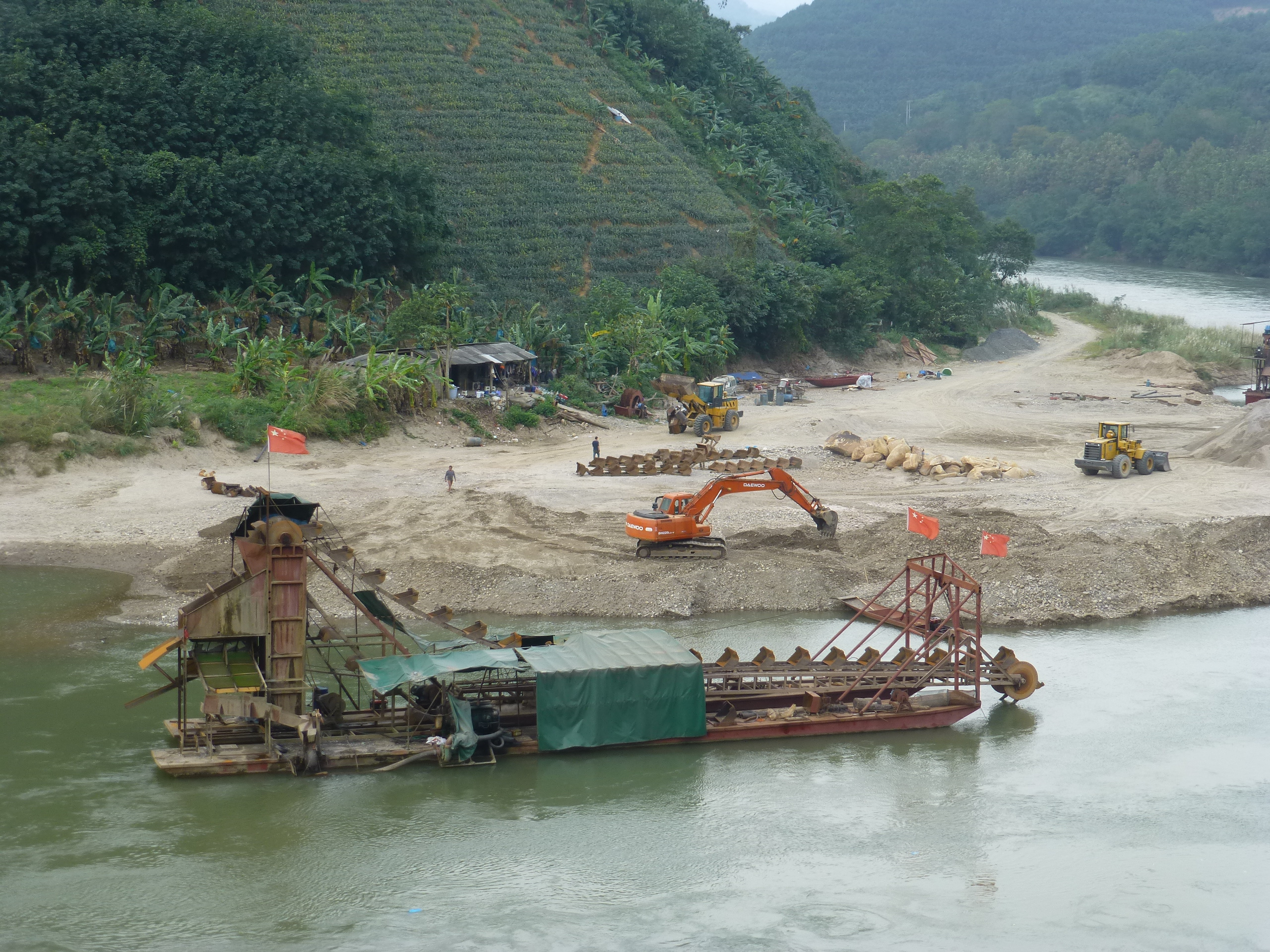 A sand mining operation on the right bank of the Red River, near Danan Village (Jinping County). Seen from the left bank, in Lianhuatan Township (Hekou County, Yunnan), between Manhao highway exit and Lianhuatan township center.